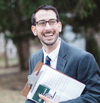 Candidate for Rockford mayor Tom McNamara campaigns in east Rockford, March 27, 2017.